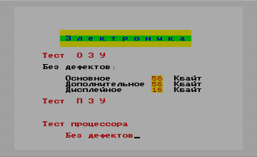 Elektronika MS0515 boot screen, interlaced. Taken using MS0515BTL emulator.